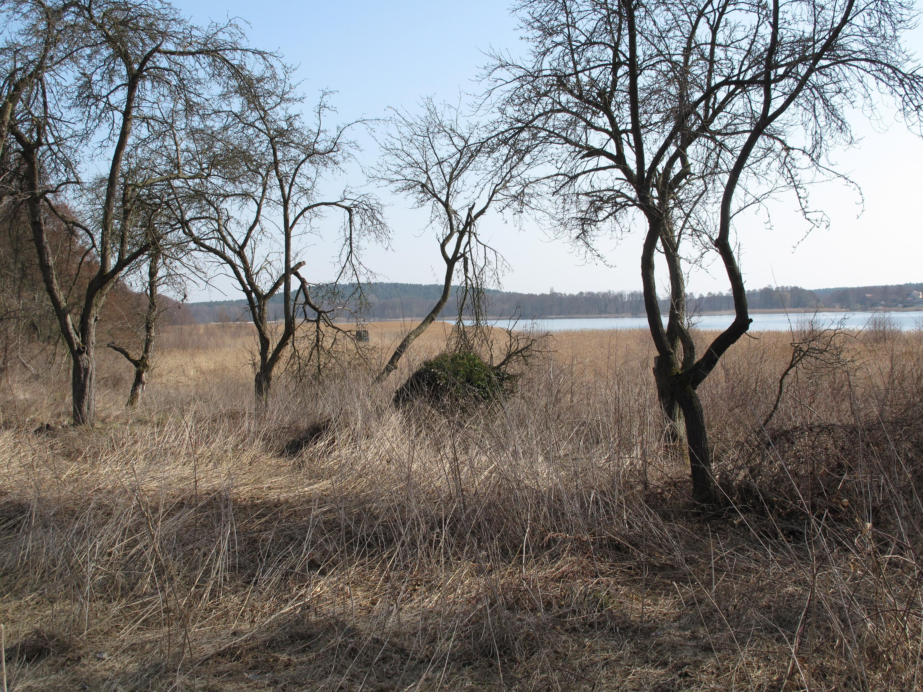 The Großer Seddiner See is a glacial lake in the nature park Nuthe-Nieplitz in Germany, Brandenburg, district Potsdam-Mittelmark, and covers 2,18 km². The lake is situated in the municipalities Seddiner See and Michendorf.